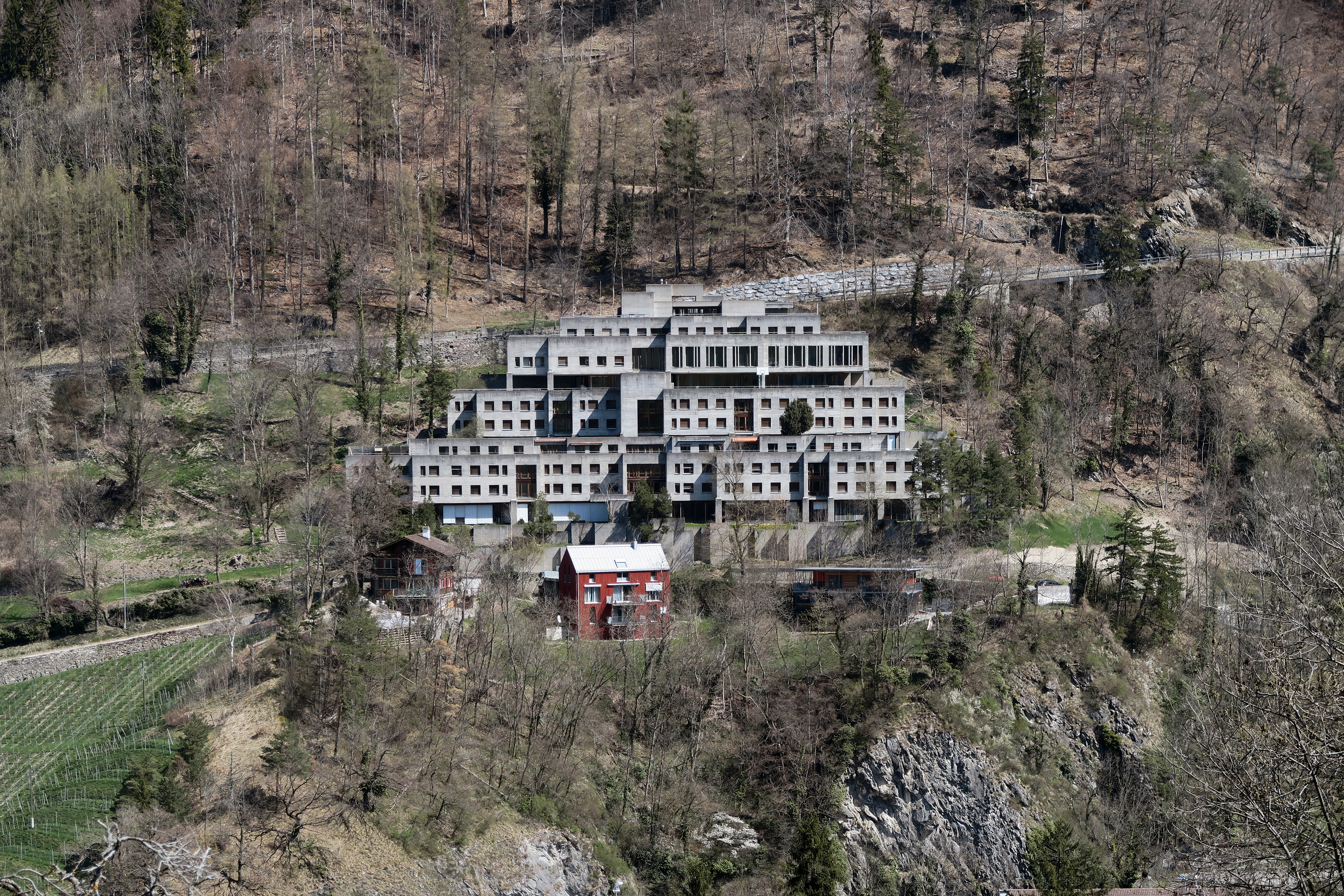 Built from 1968 to 1969 in the brutalist style of architecture. The way it clings to the mountain, reminded me first of a monastery in the Himalaya. It is a hostel for students and also within easy reach by the new inclined lift at the Church of St. Luzi. Taken from the opposite side of the valley, geotags on the object. Switzerland, April 12, 2015.